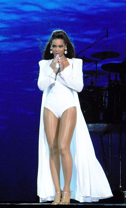 Beyonce during her concert in Vancouver at General Motors Place Stadium March 31, 2009